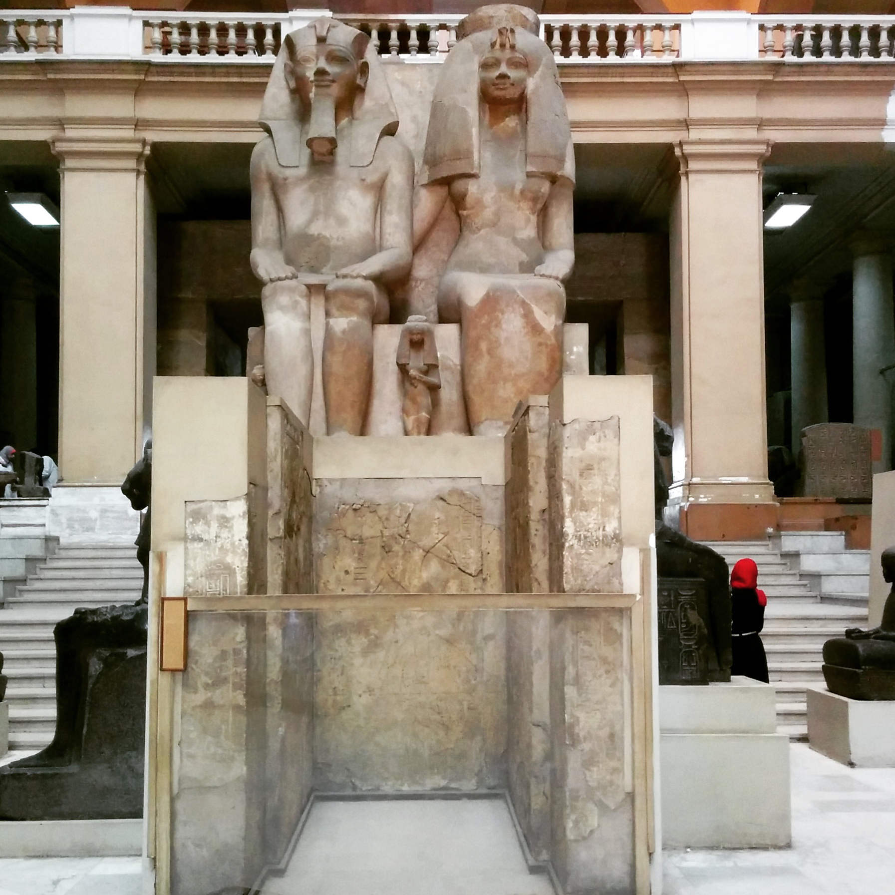 Egyptian Museum (Cairo)